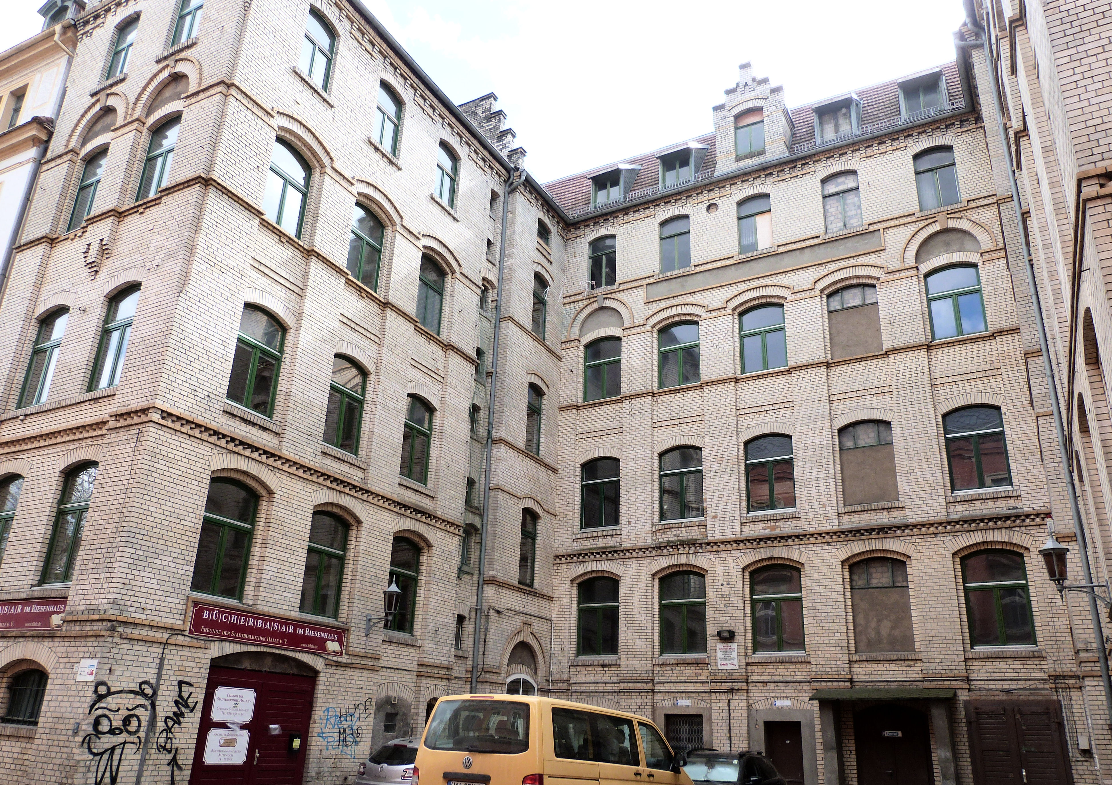 House No. 17, Grosse Brauhausstrasse, Halle (Saale)